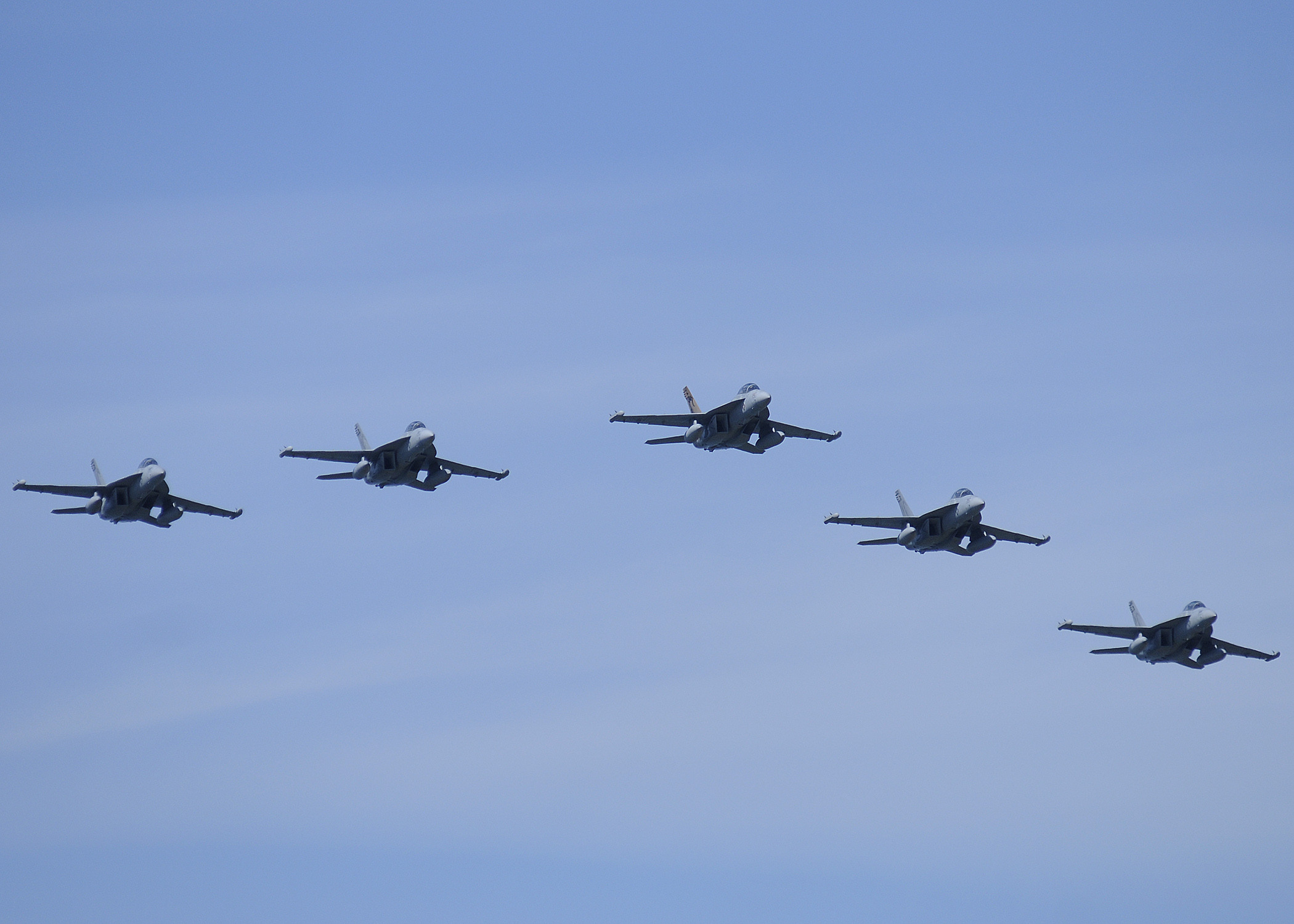 OAK HARBOR, Wash. (July 9, 2011) EA-18G Growlers assigned to the Scorpions of Electronic Attack Squadron (VAQ) 132 perform a fly-by during a homecoming ceremony at Naval Air Station Whidbey Island following an eight-month expeditionary deployment supporting Operation New Dawn and Operations Odyssey Dawn and Unified Protector. VAQ-132 protected numerous U.S. and Coalition military assets and personnel in the U.S. Central Command and U.S. European Command areas of responsibility. (U.S. Navy photo by Mass Communication Specialist 2nd Class Nardel Gervacio/Released)